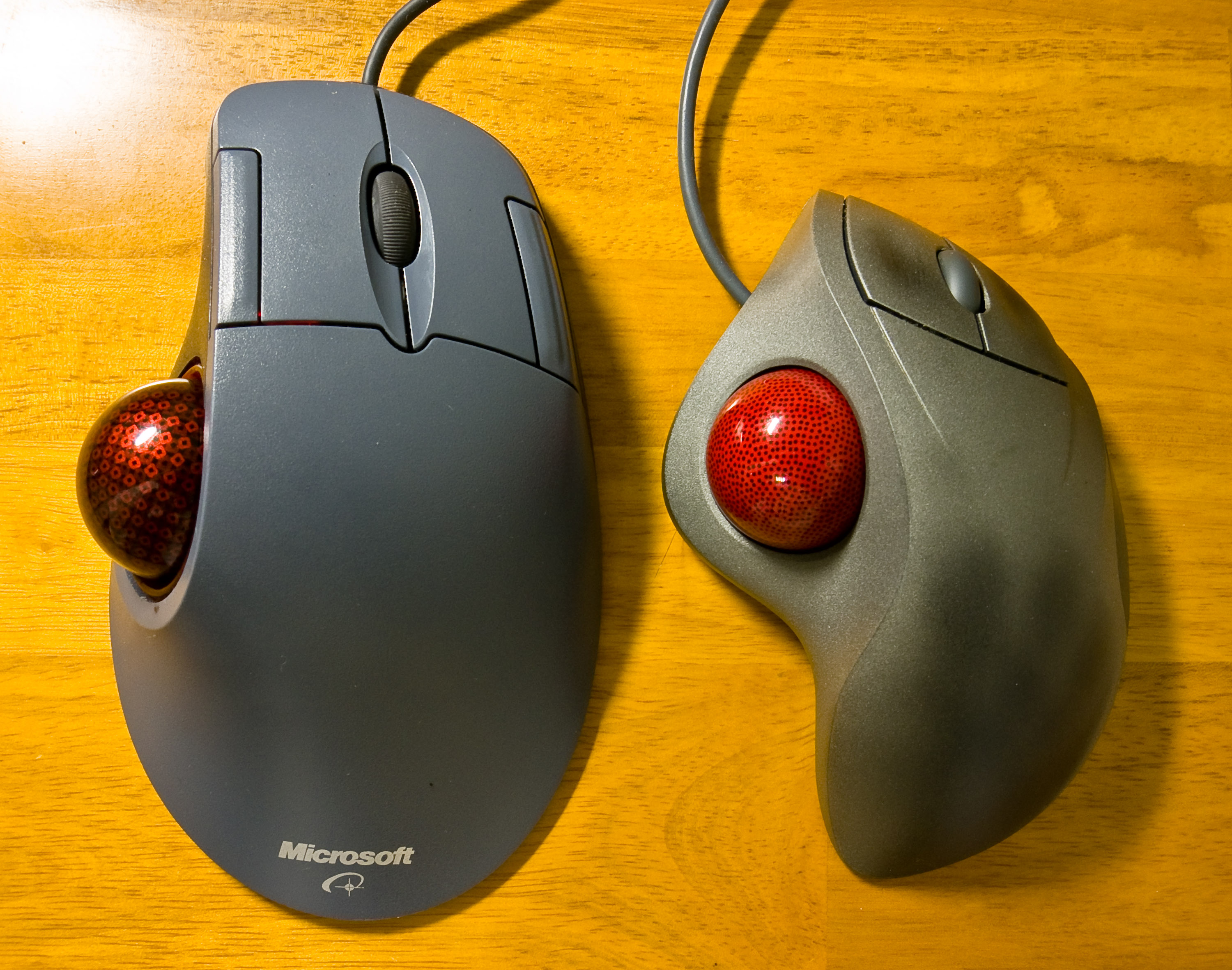 two products of thumb type trackball; TBO, Microsoft TrackBall Optical (left), Logitech TrackMan Wheel (right)